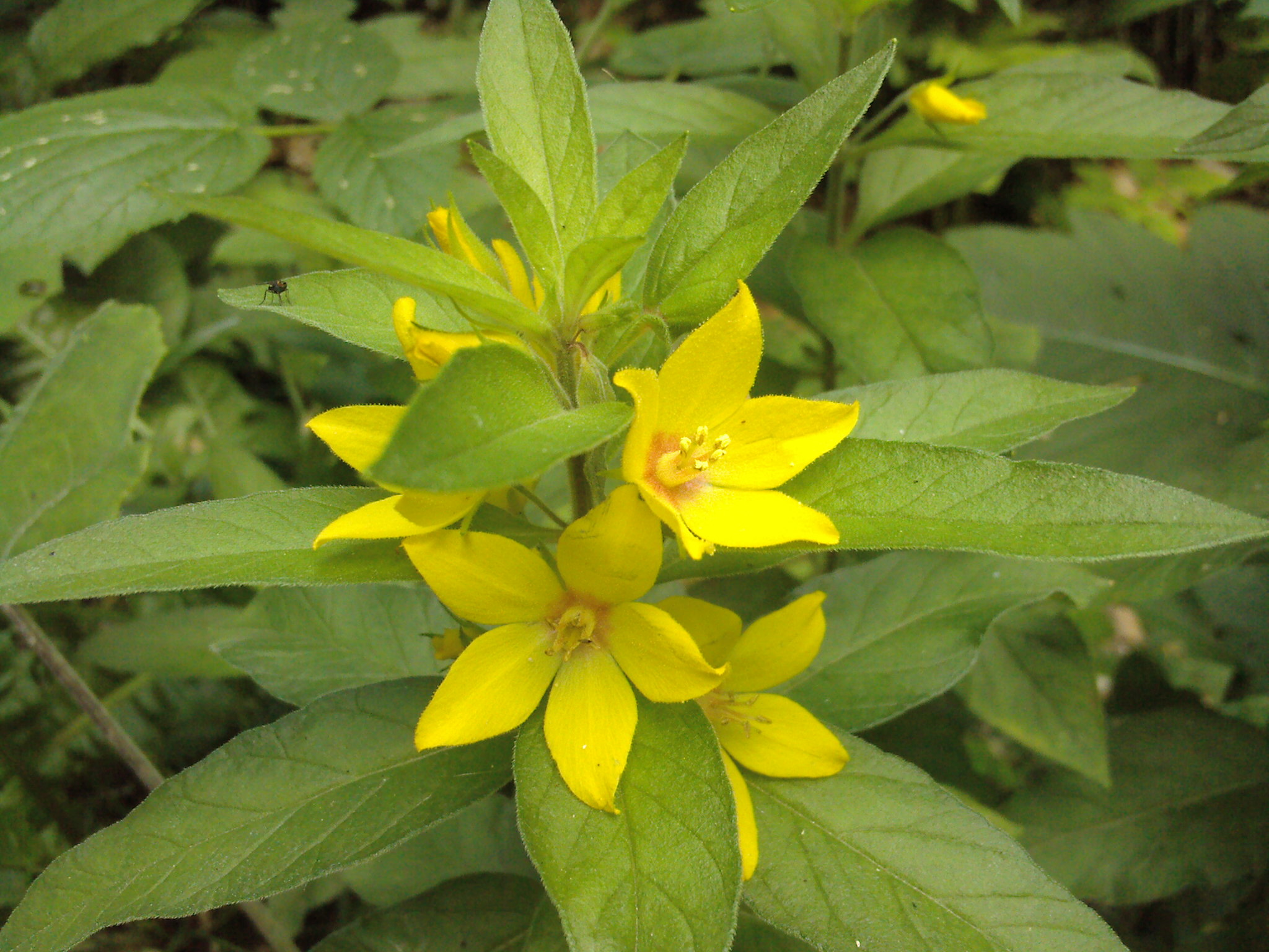 Dotted Loosestrife Lysimachia punctata, Brașov County, Romania